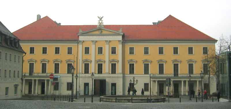 Regensburg, Germany: Municipal Theatre (Stadttheater), Bismarckplatz